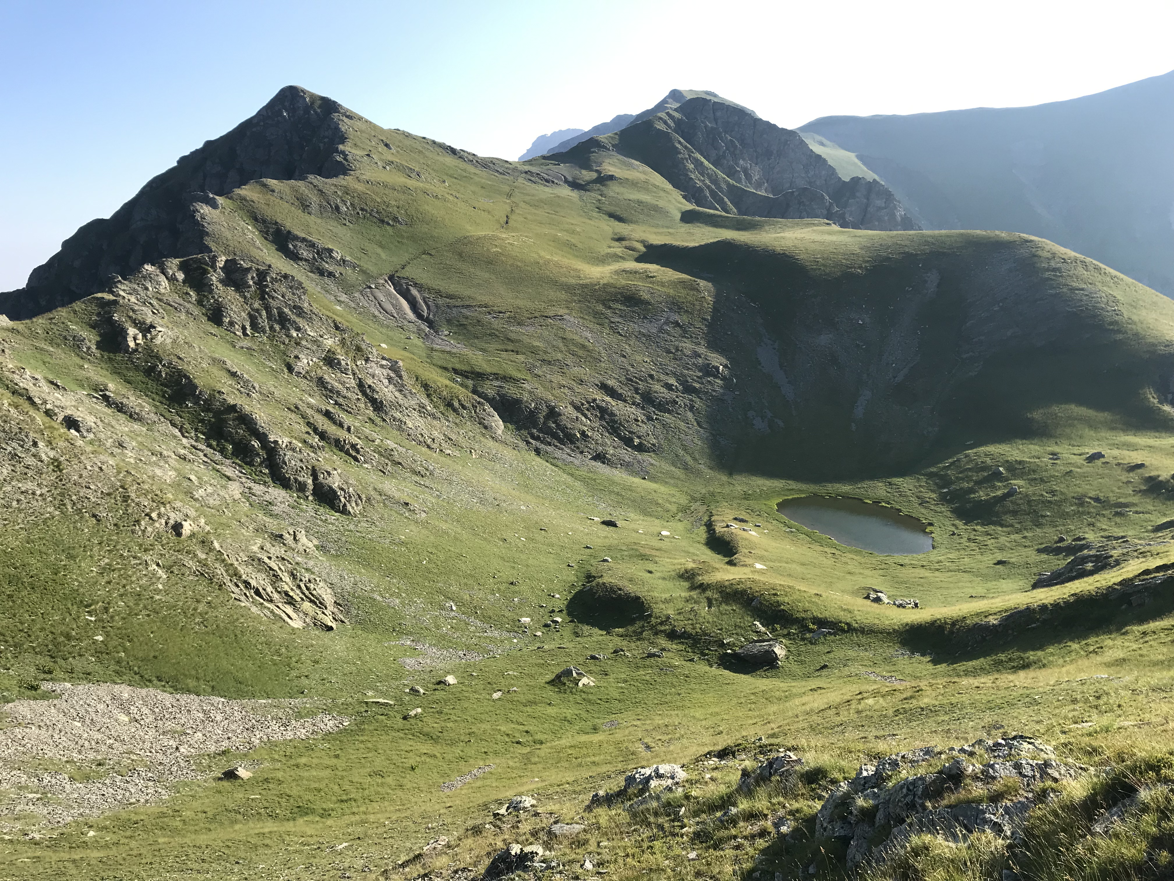 Glacial lake on Mount Korab